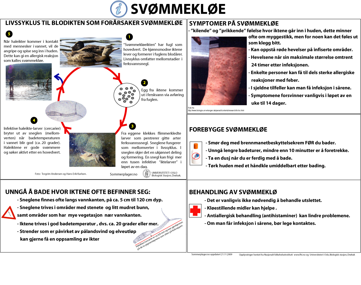 Cercariedermatitt - Life cycle of cercarie causes swimmers itch, symptoms, prevention and treatment.